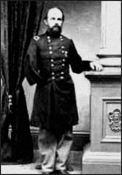 photo of George J. Stannard (1820-1886)